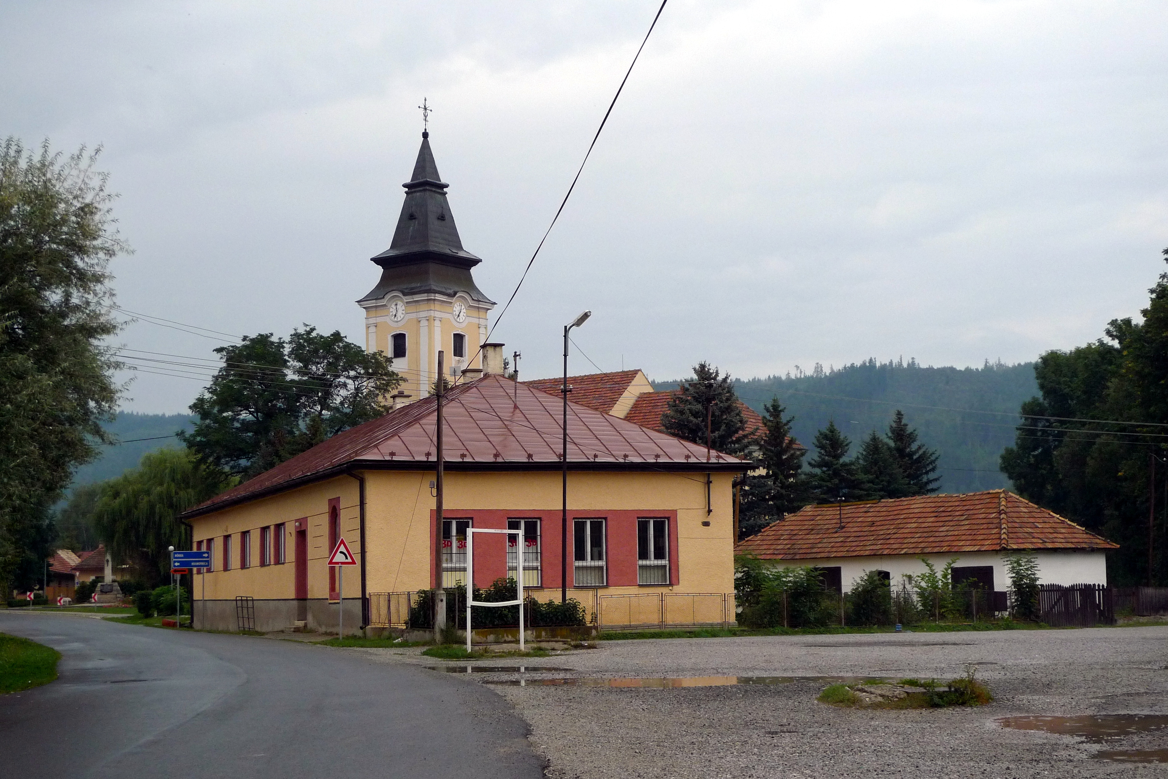 Spišský Štiavnik - village in Slovakia Česky: Spišský Štiavnik - centrum